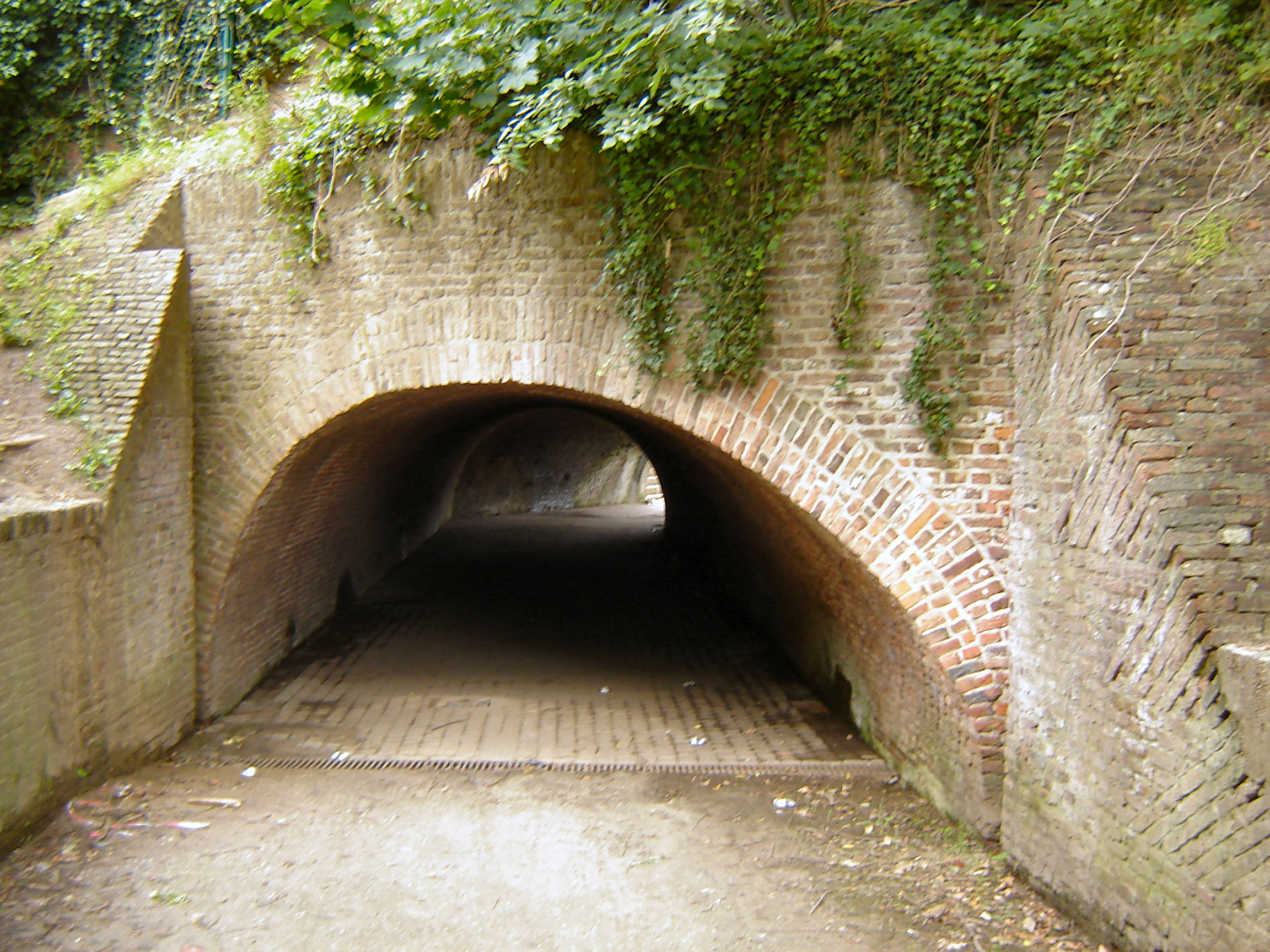 Ramparts in Menen, at the Ter Walle park. Postern under the wall; here the Geluwebeek stream entered the city. Menen, West Flanders, Belgium